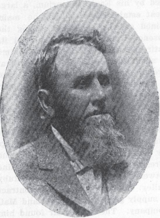 Photo of William Jennings, a member of the Council of Fifty in The Church of Jesus Christ of Latter-day Saints (LDS Church).